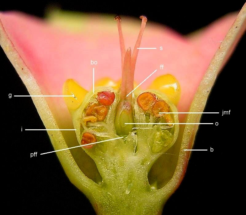 Euphorbia milii, cross-section of a cyathium b Bract i Involucre g Gland ag Appendage of the gland bo Bracteole mf Male flower jmf Juvenile male flower a Anthere pmf Pedicel of the male flower ff Female flower o Ovary s Style pff Pedicel of the female flower